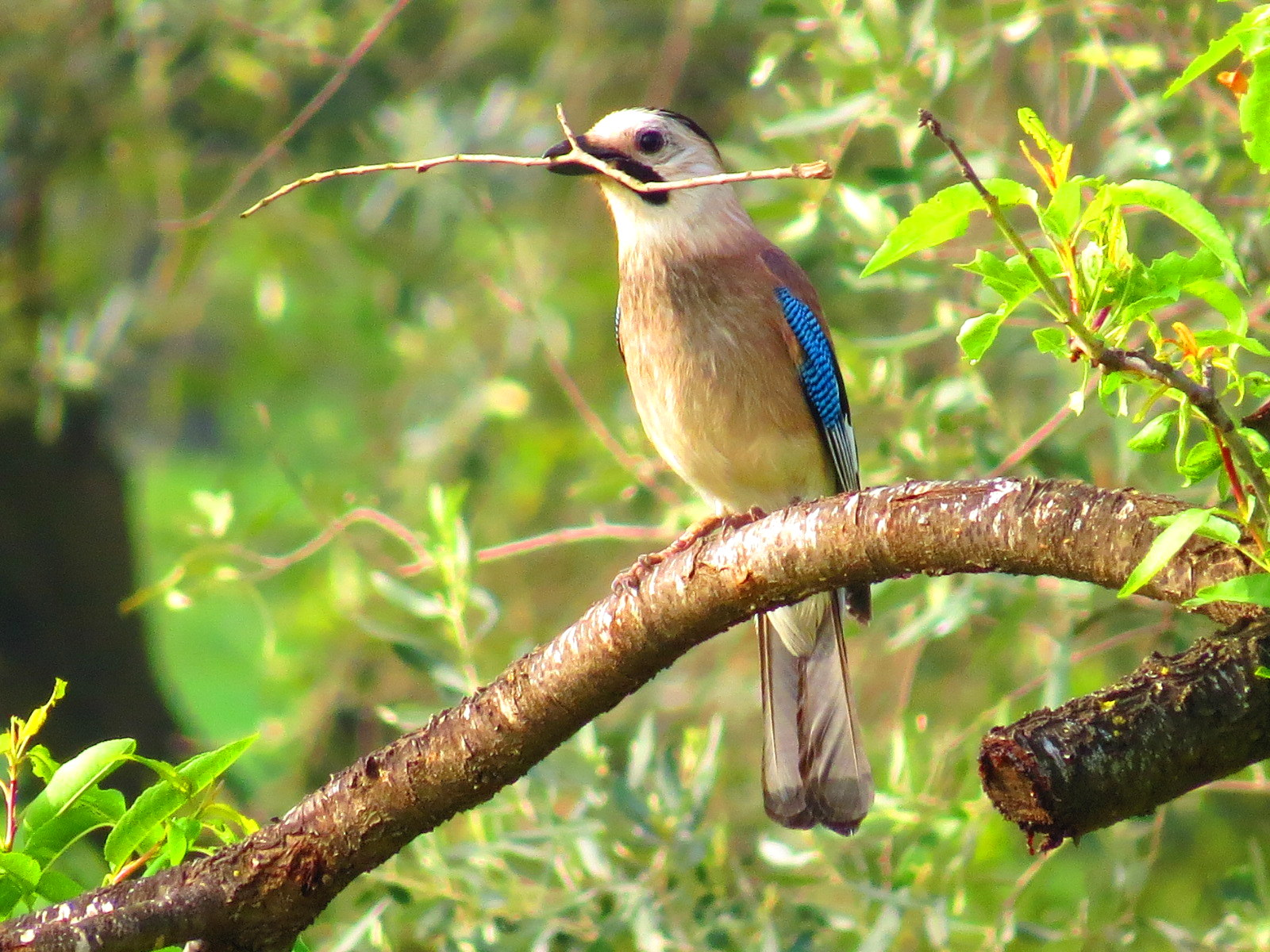 Garrulus glandarius